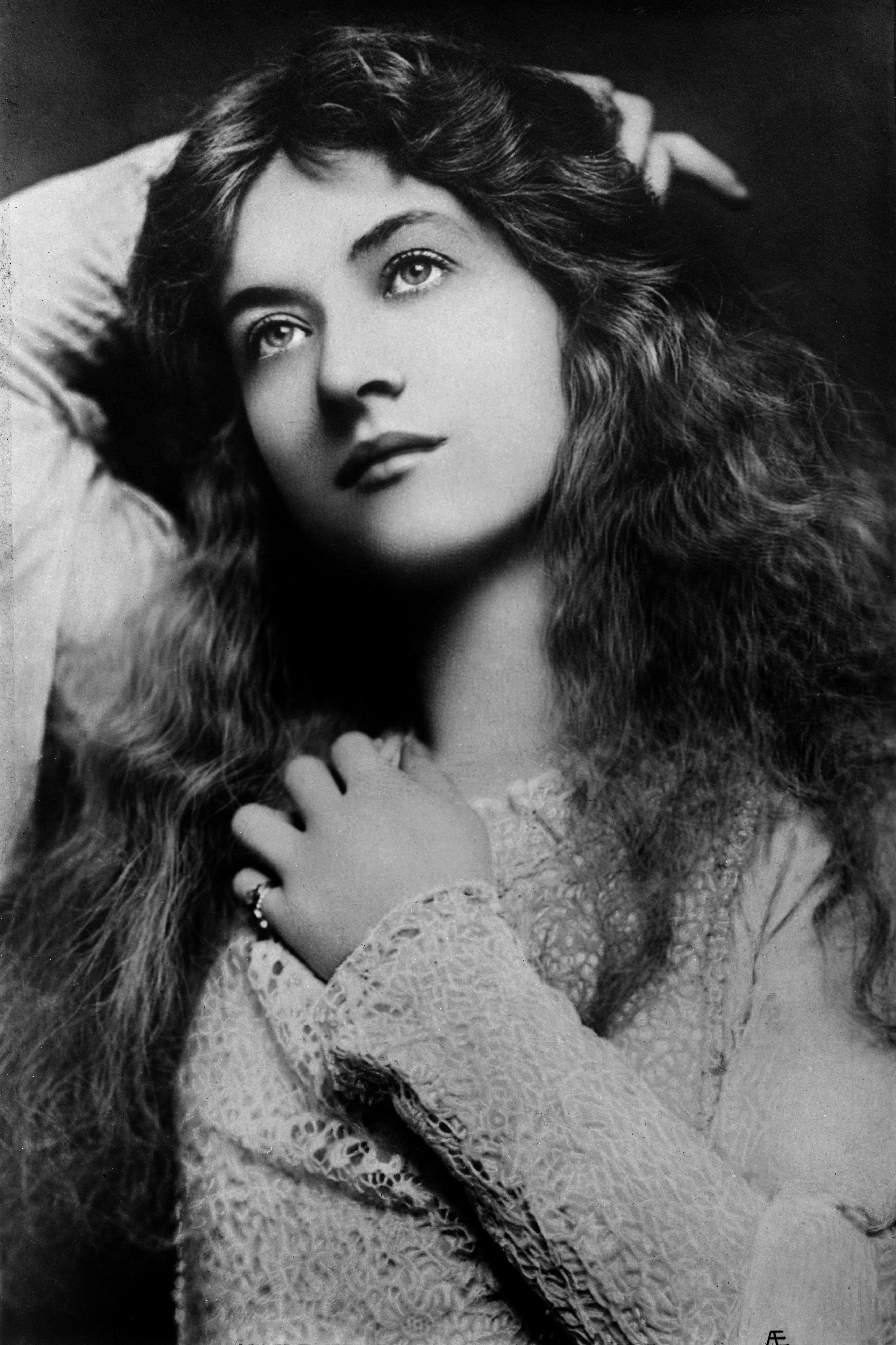 Broadway and Hollywood actress Maude Fealy, undated photograph from the Bain News Service. From her biography and a comparison of other photographs (e.g. this excellent gallery), this was likely taken by Lizzie Caswall Smith between 1900 and 1902. From the George Grantham Bain Collection at the Library of Congress More Bain News photos | More black & white portraits [PD] This picture is in the public domain